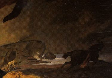 Detail from Anselm Feuerbach's Amazon battle.